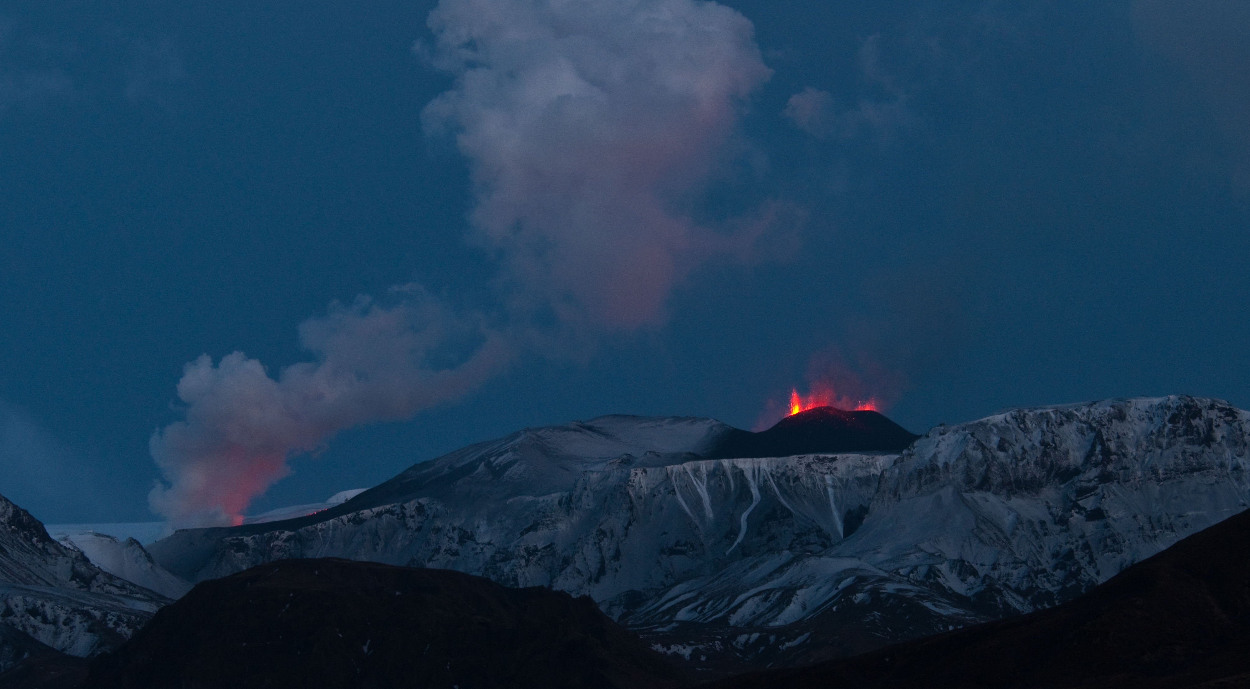 The first crater and the steam cloud from the first lava river in Hrunagil. Seen from Fauskheiði.